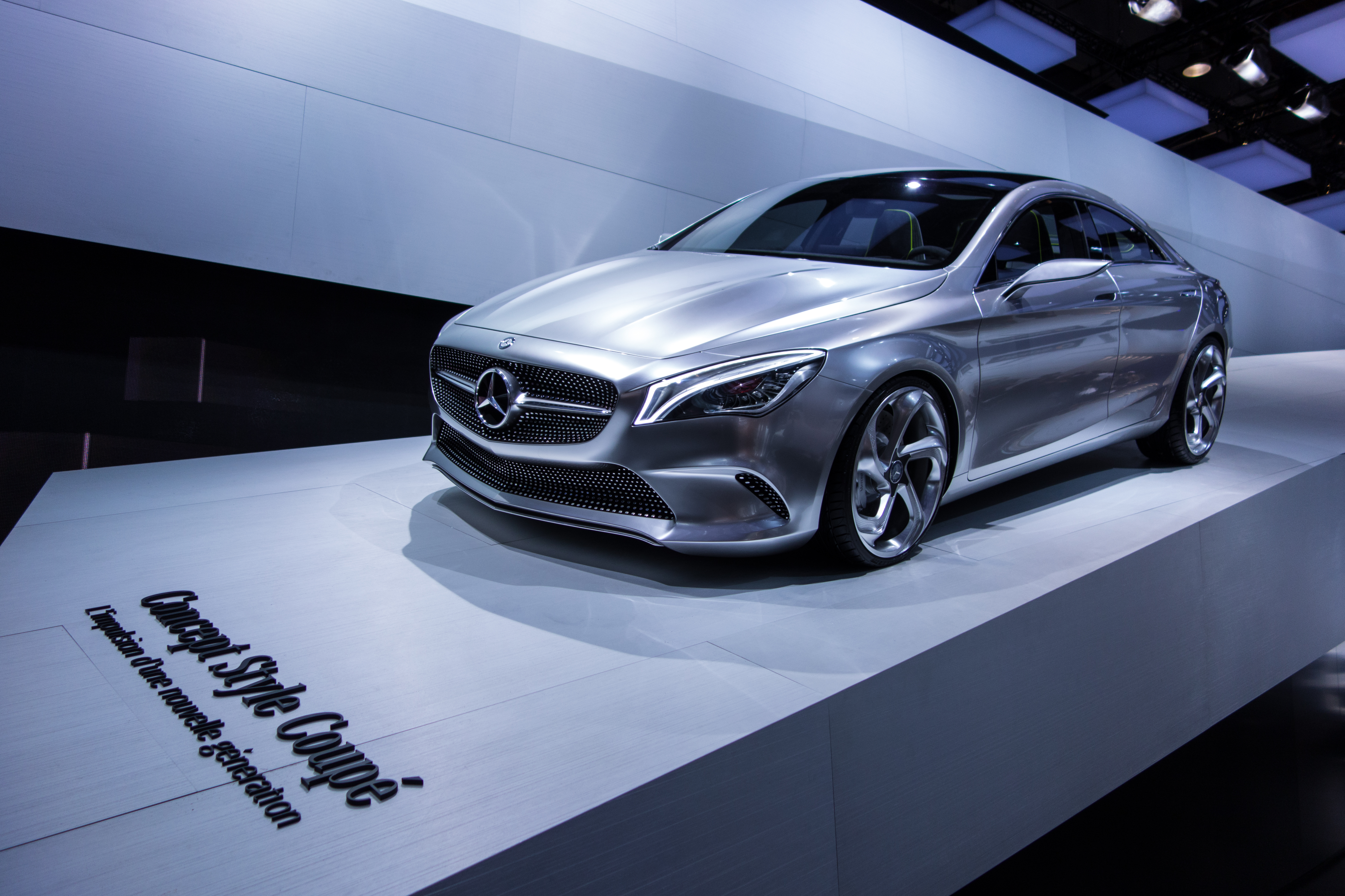 Mondial De L'automobile Paris 2012 | Paris Motor Show 2012